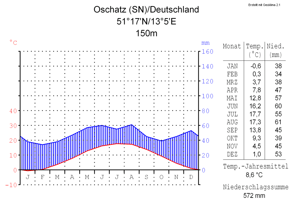 climate chart in the format by Walter and Lieth, metric, °Celsisus and millimeters, made with Geoklima 2.1